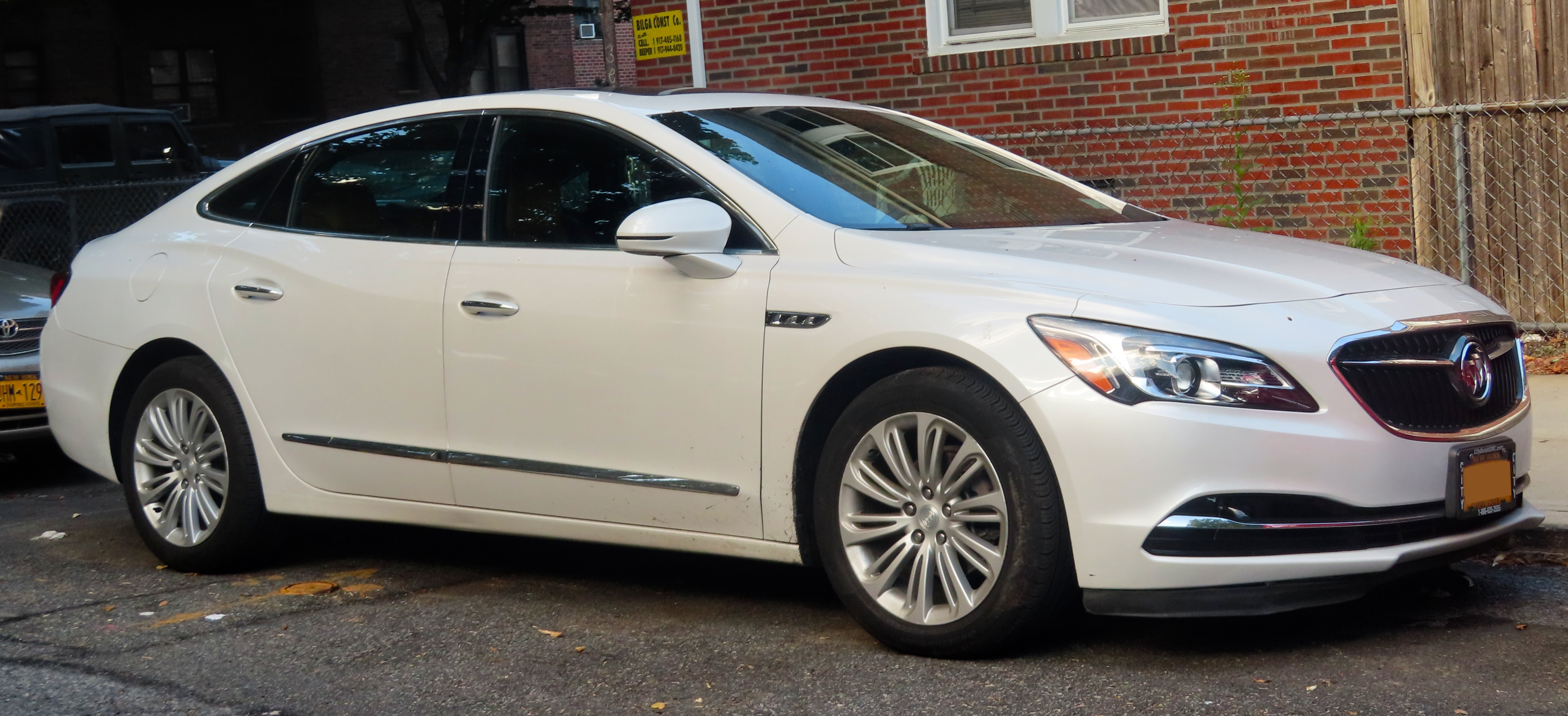 A 2018 Buick LaCrosse Essence photographed in Jackson Heights, Queens, New York, USA